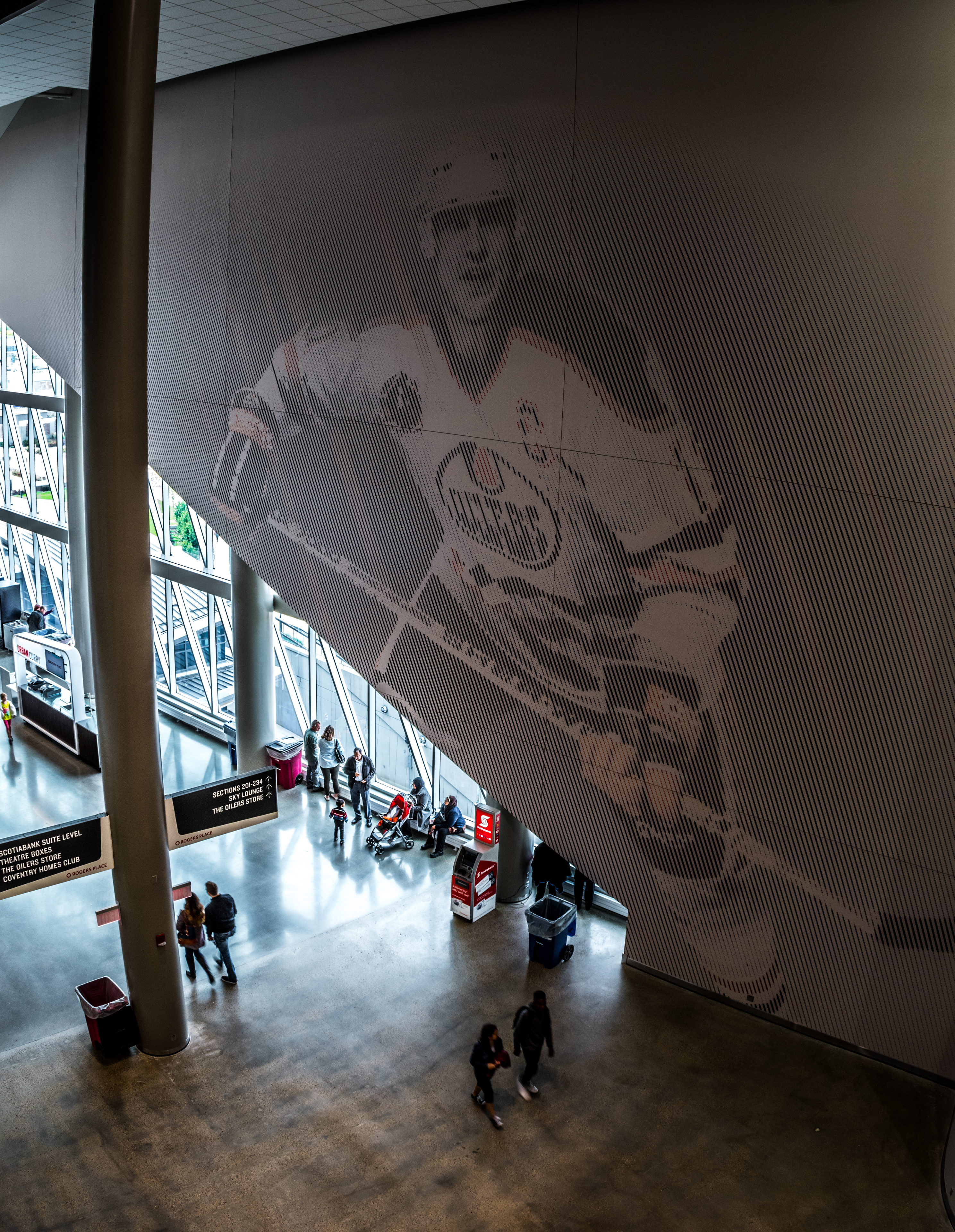 Roger's Place, Edmonton